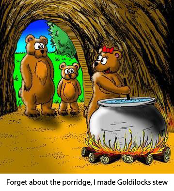 Cartoon of Grimm's fairy tale bears eating Goldilocks